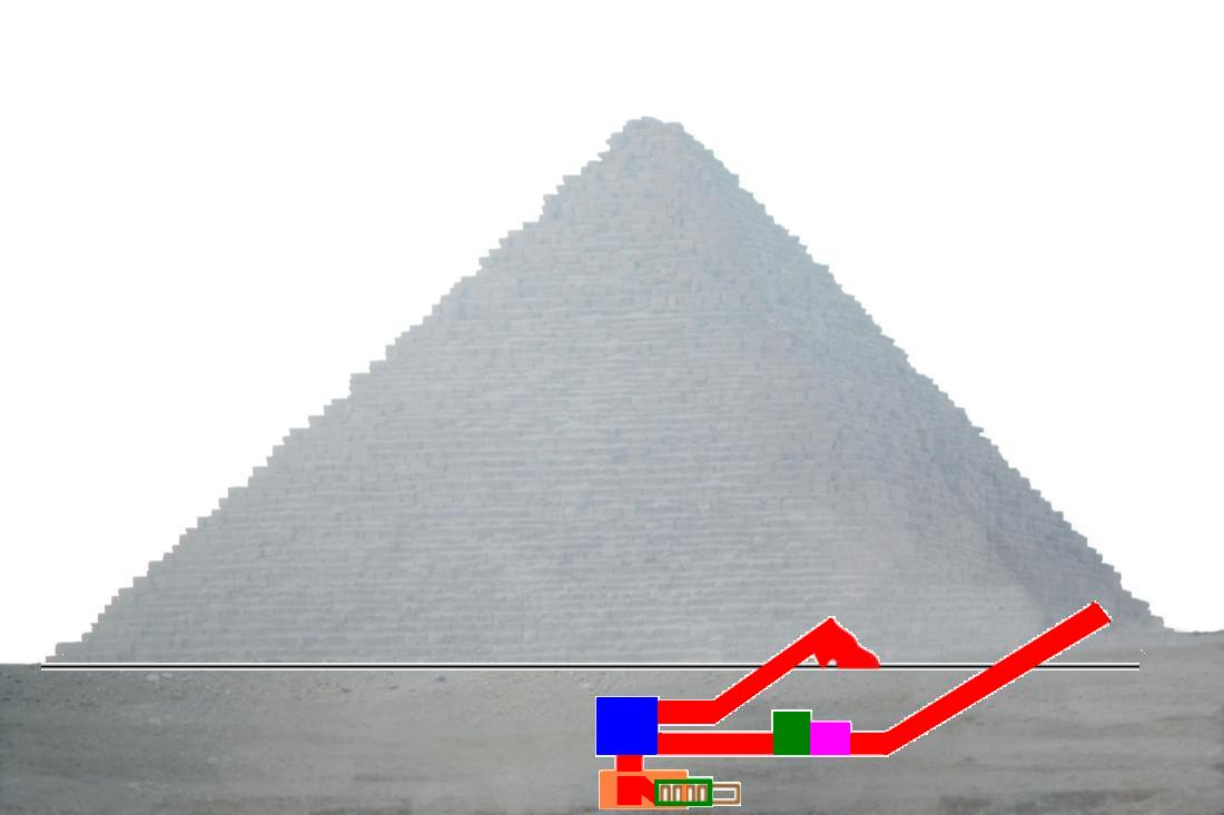 Pyramid of Menkaure.